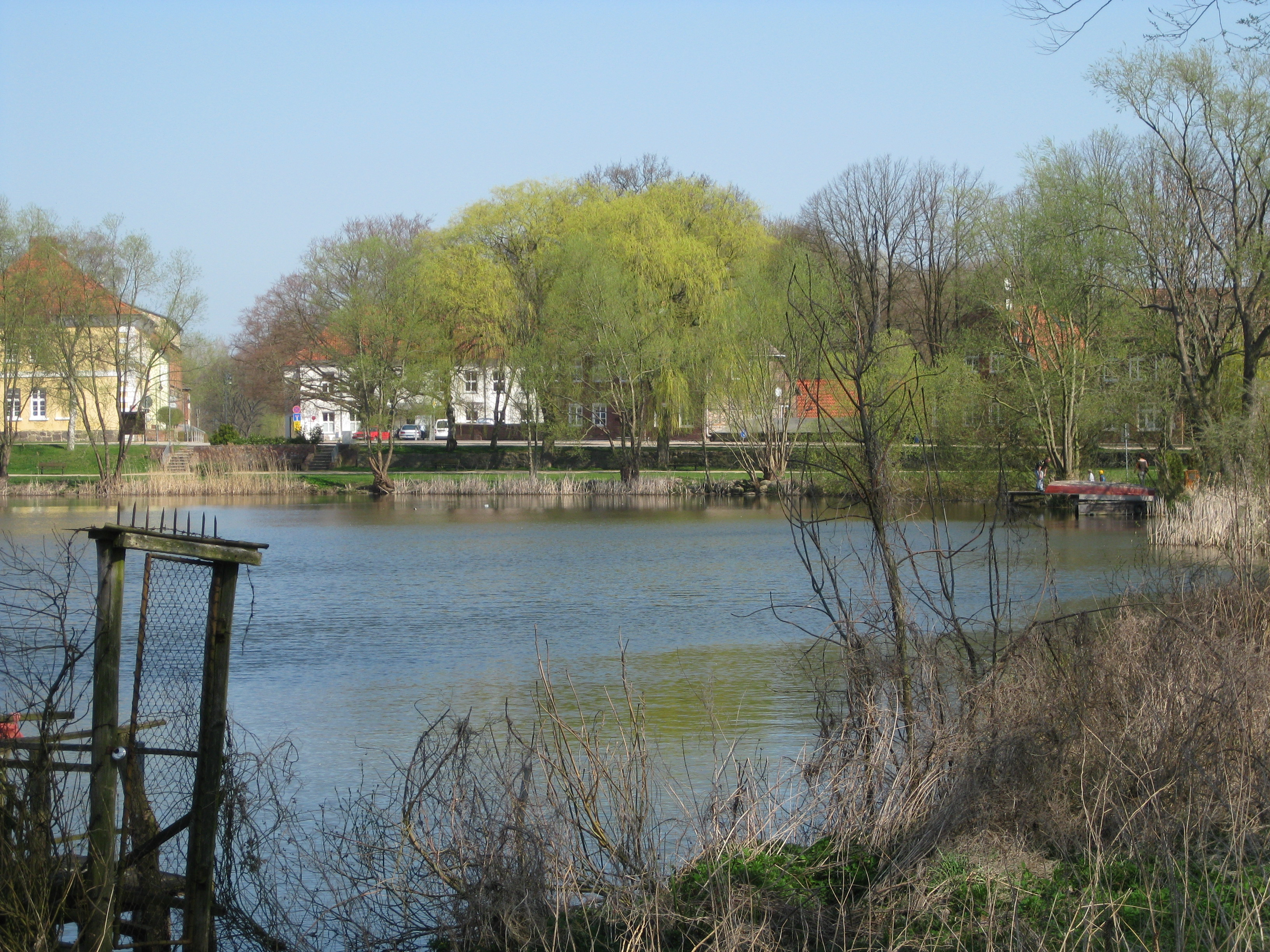 Oberteich in Schönberg, Meckl.